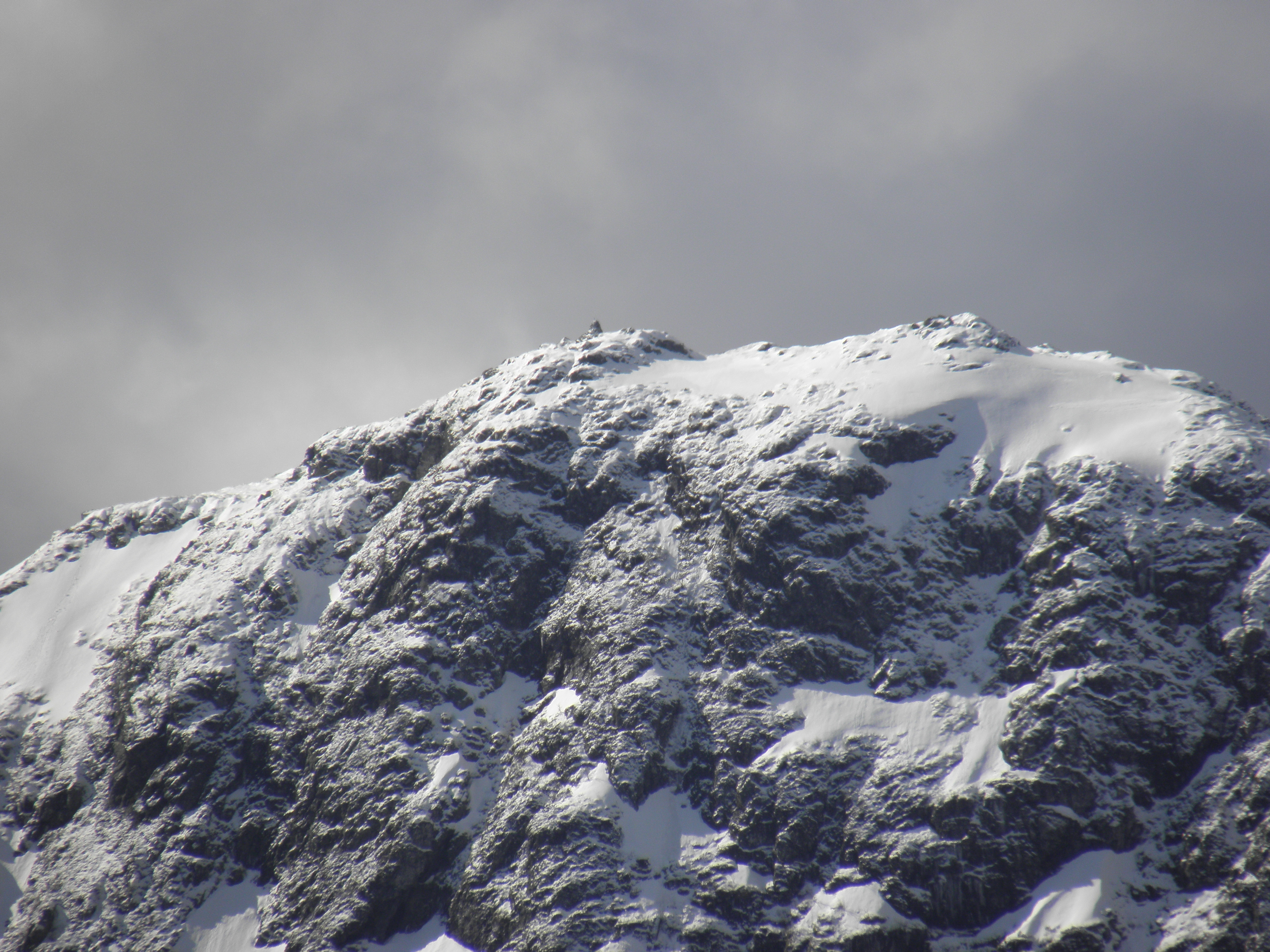 Hovlandsnuten on Tysnes, seen from Stussvikhovda.